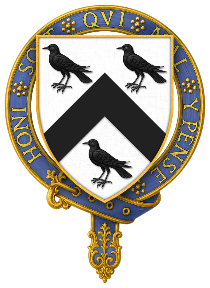 Coat of arms of Sir Rhys ap Thomas, KG See Sir Rhys' stall plate, still intact, within its original stall at St. George's Chapel - Argent, a chevron between three Cornish Choughs Sable.